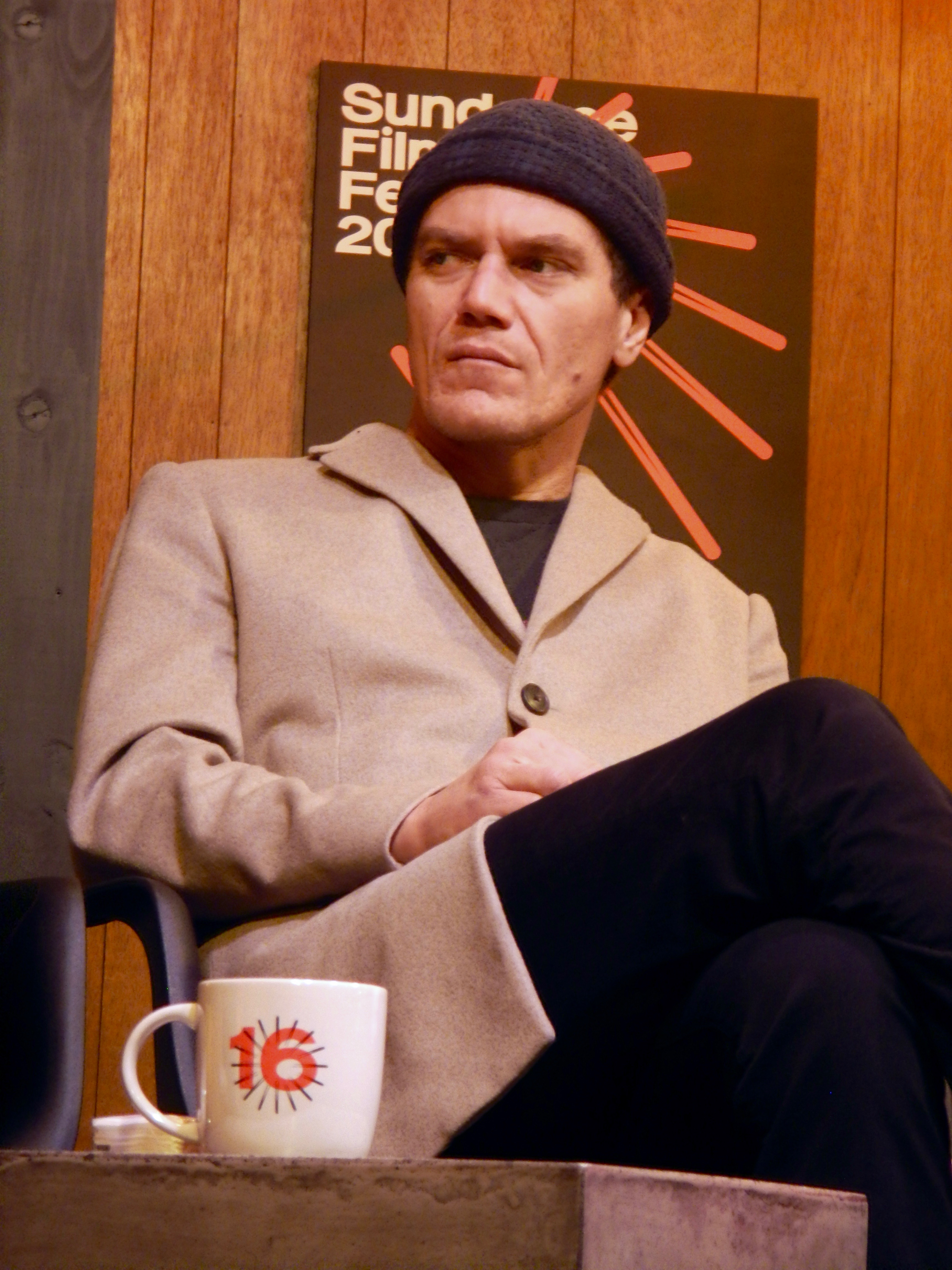 Cinema Cafe, 2016 Sundance Film Festival, Park City UT